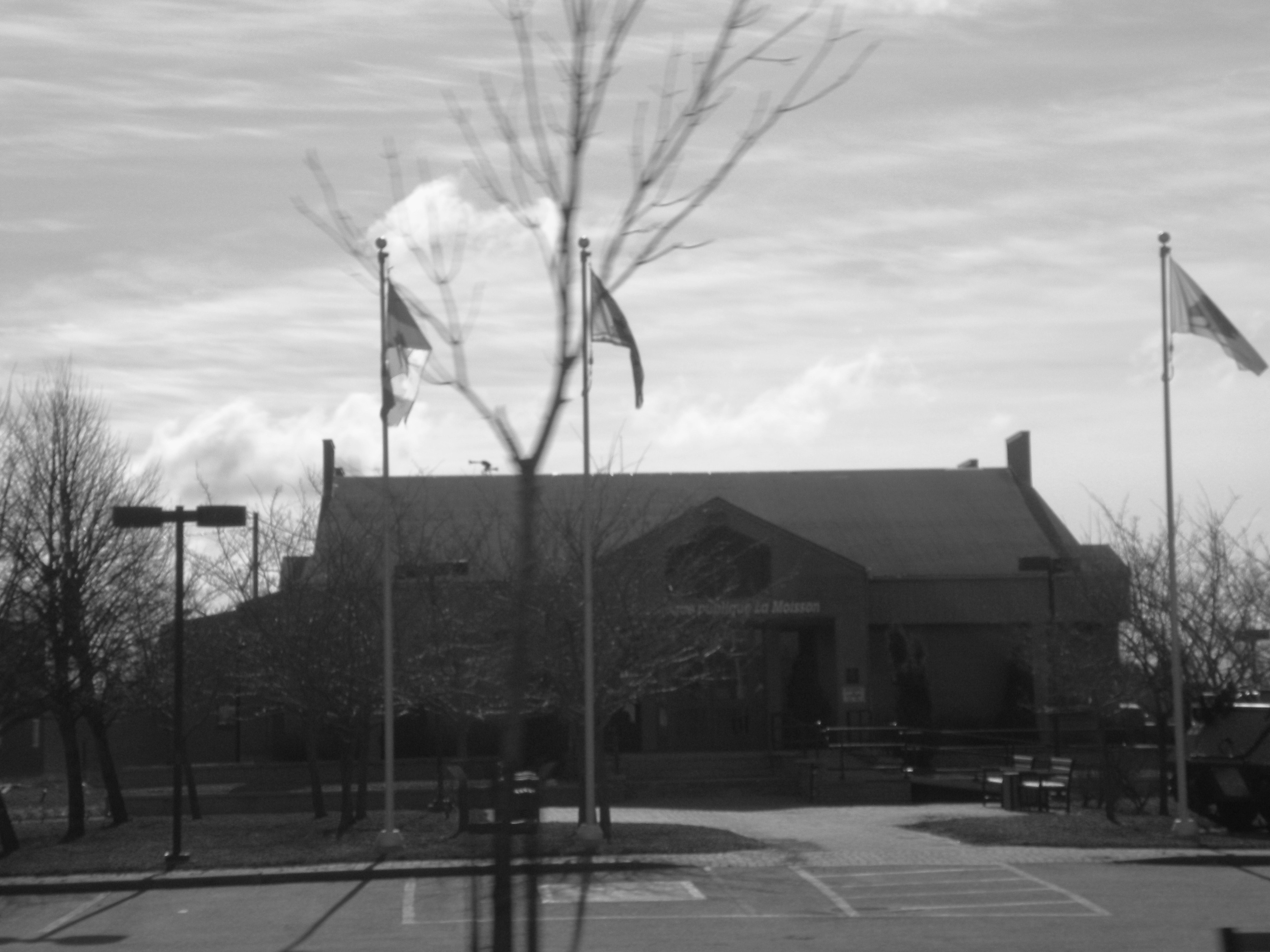 La Moisson public library in Saint-Quentin, New Brunswick.